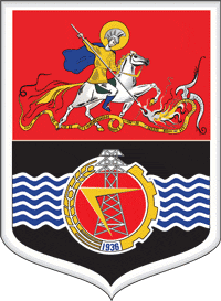 Shatura (Moscow oblast), coat of arms (1995)